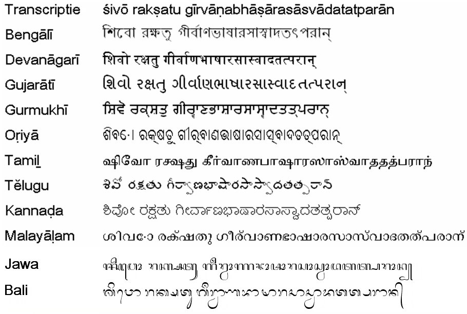 Examples of various scripts derived from the Devanagari and Pallava scripts.